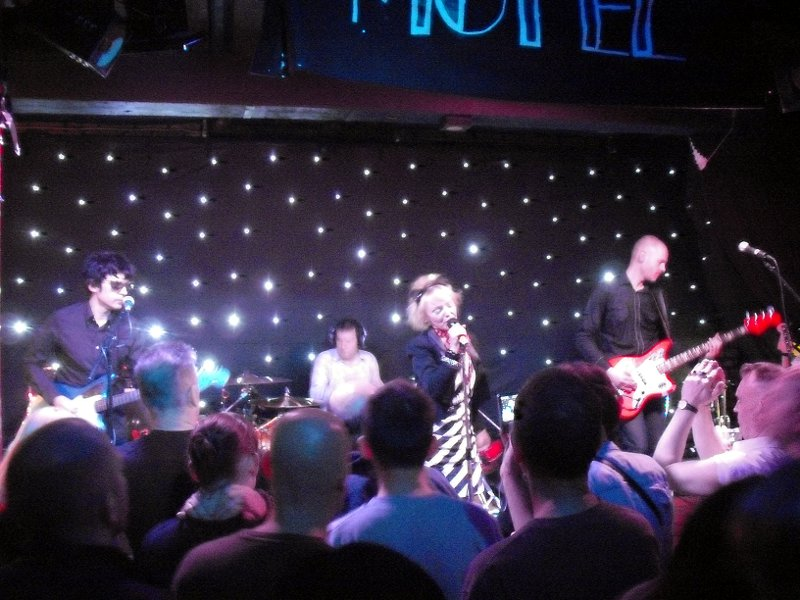 The Primitives, playing at the Lomax, Liverpool, 23rd May 2012